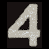 Route number signage that appeared on the front of BMT D-type (Triplex) cars from 1927 to 1964 on the New York Subway. From c1965 photostat. This number was used on trains of the Sea Beach Line (4).